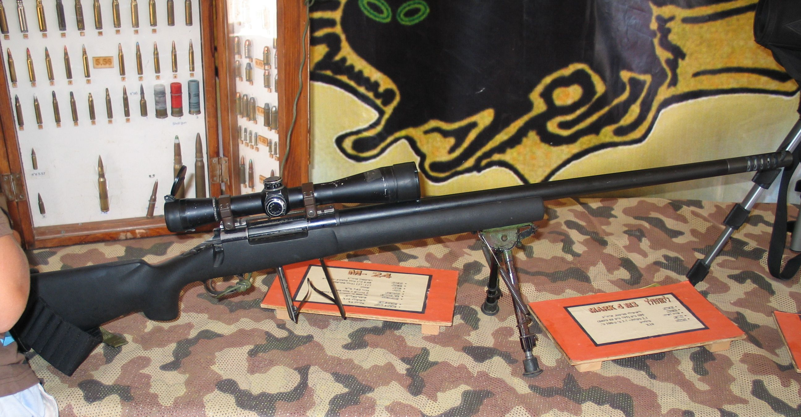 Remington M24 sniper rifle. Independence Day exhibition at Yad la-Shiryon Museum, Latrun, Israel.